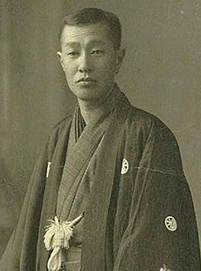 Photo of, the father of modern Japanese whaling